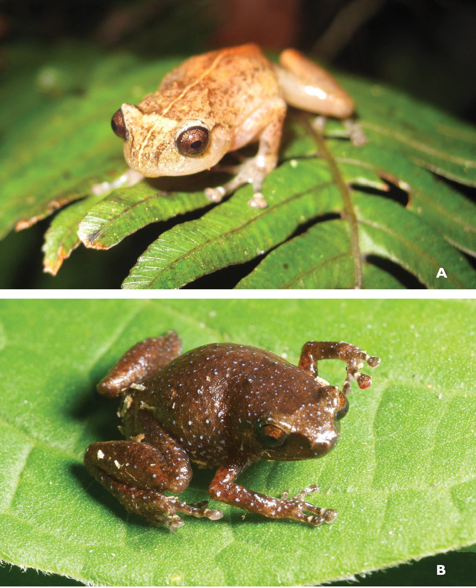 Aphantophryne cf. nana males from Mindanao (Oreophryne cf. nana)